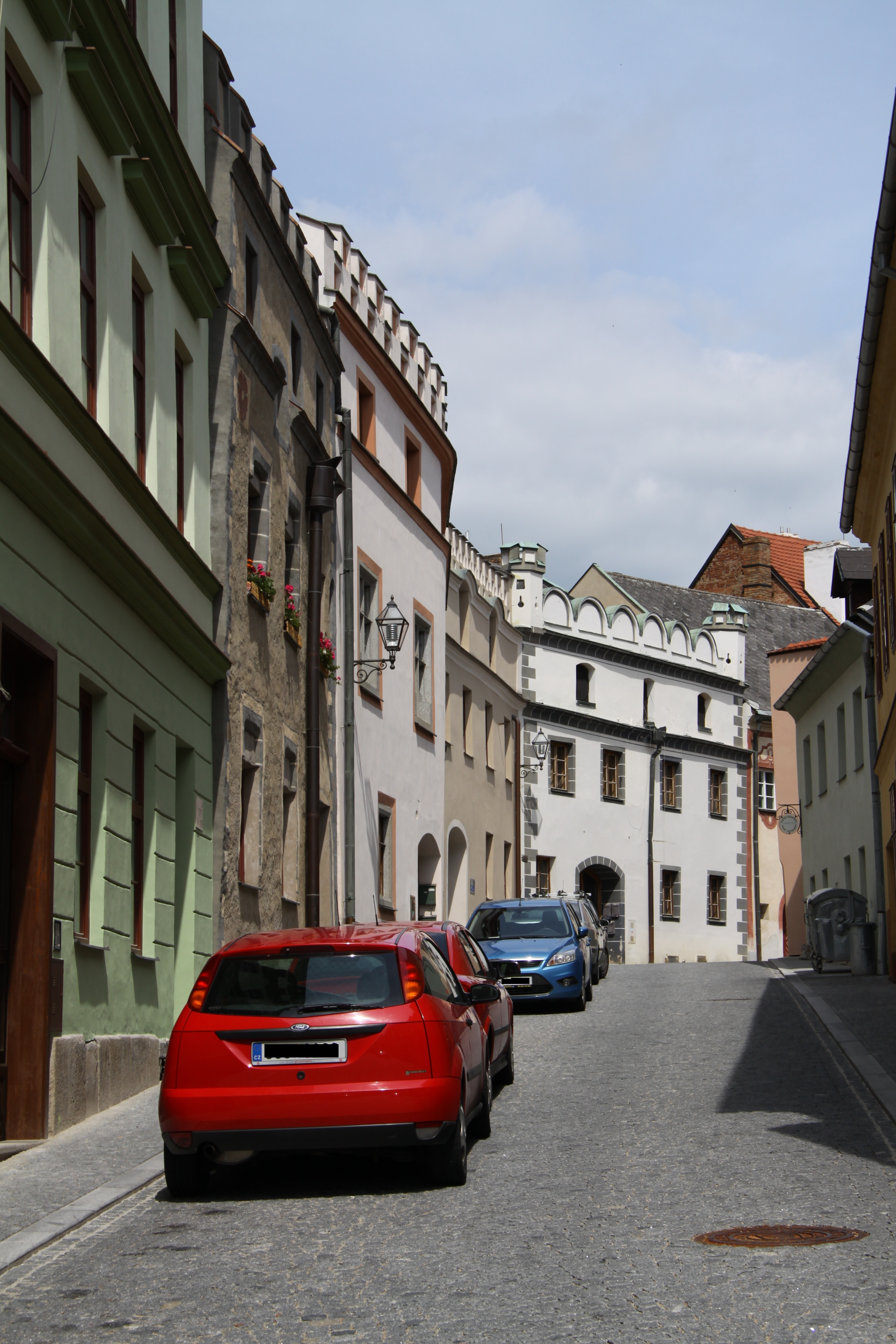 Horní street in Prachatice, Prachatice District, Czech Republic